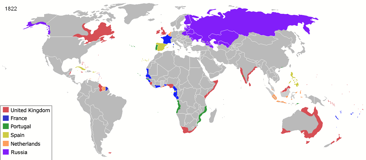 Map of major world powers by year, derived from public domain animated map on wikipedia. Maps of world history BC 2000 · 1000 · 500 · 400 · 323 · 300 · 200 · 100 · 50 AD 1 · 50 · 100 · 200 · 250 · 300 · 400 · 500 · 700 · 750 · 820 · 900 · 1556 · 1700 · 1815 · 1859 Maps of colonization history 1492 · 1550 · 1600 · 1660 · 1754 · 1800 · 1812 · 1822 · 1885 · 1898 · 1914 · 1920 · 1936 · 1938 · 1945 · 1959 · 1974 · 1975 · 2007 Animated Map Maps of Cold War 1959 · 1980 · see also: Eastern Hemisphere only maps template (1300BC-1500AD) (this template: · view · discuss ) As the orriginal licence of the animation was Public Domain, this image which has been derived from it is too: This work has been released into the public domain by its author, Andrei nacu. This applies worldwide. In some countries this may not be legally possible; if so: Andrei nacu grants anyone the right to use this work for any purpose, without any conditions, unless such conditions are required by law.